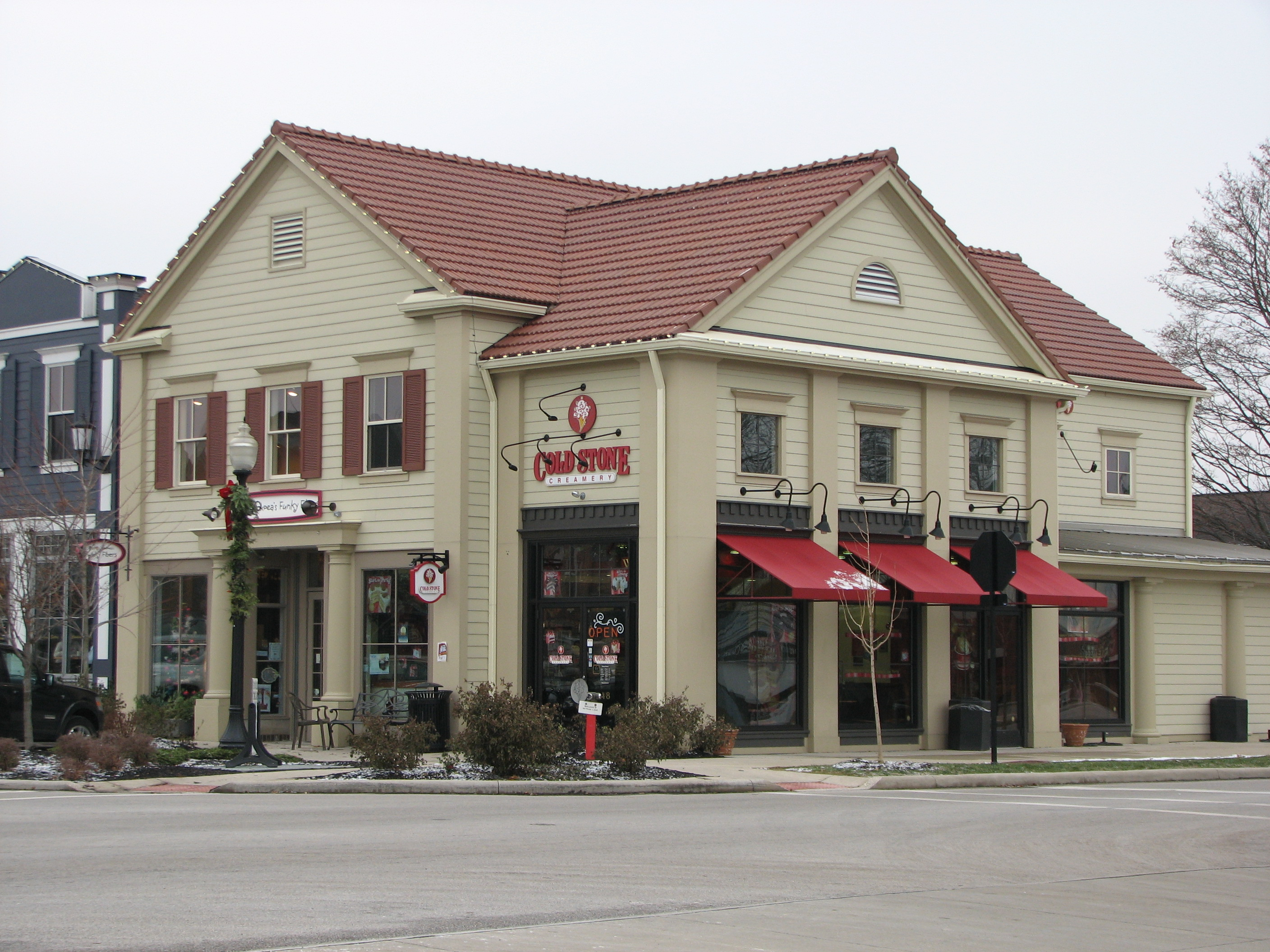 Image of Coldstone Creamery in Hudson, Ohio.